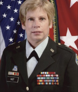 Major General Barbara Fast, official U.S. Army photo